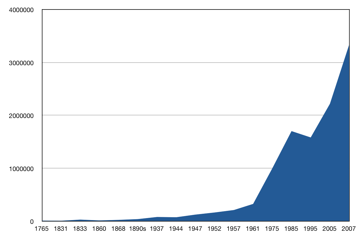 Population of Kuwait chart